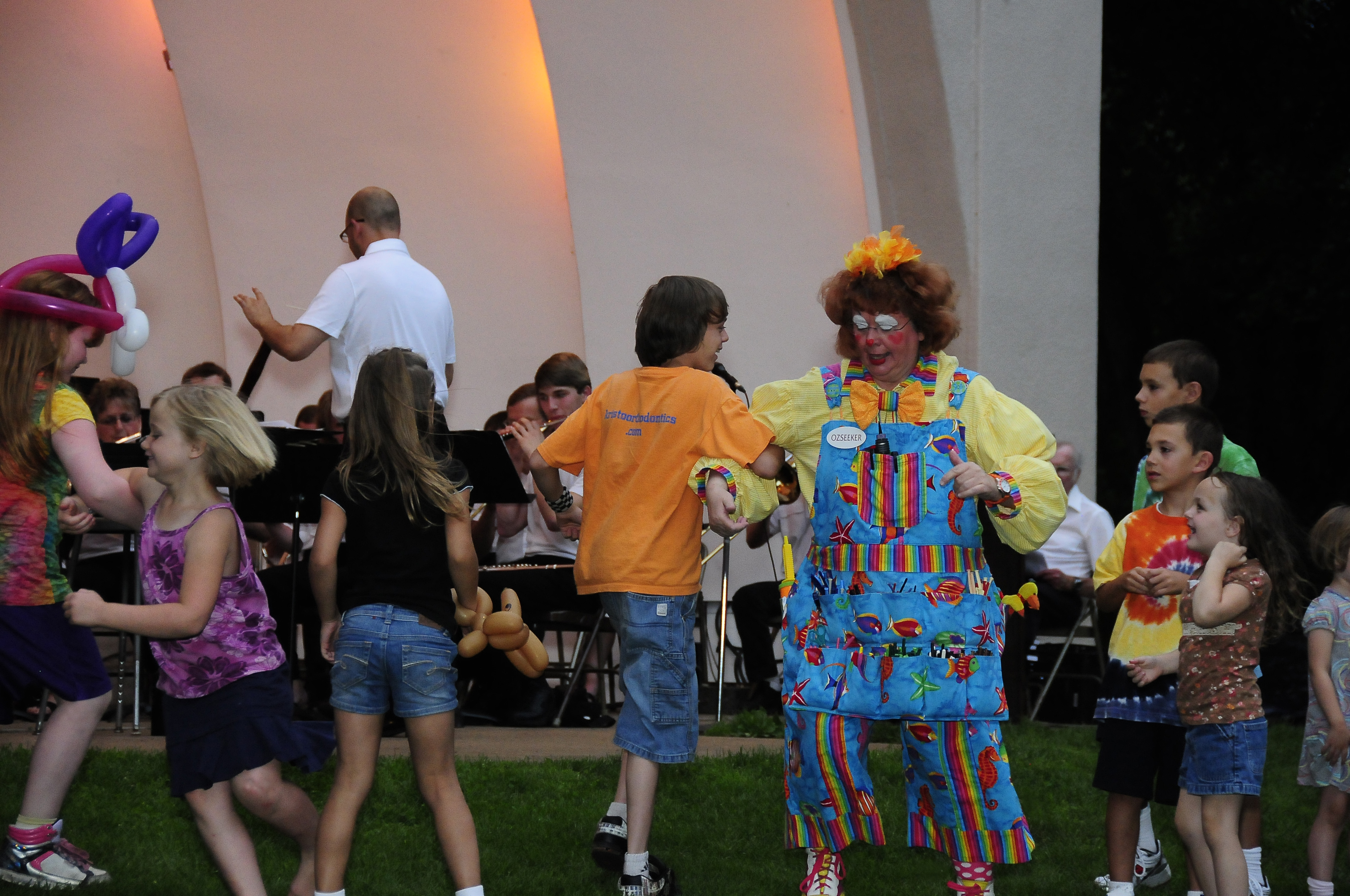 Terrifying clown doing the Chicken Dance at the Sarge Boyd Bandshell in Eau Claire, Wisconsin